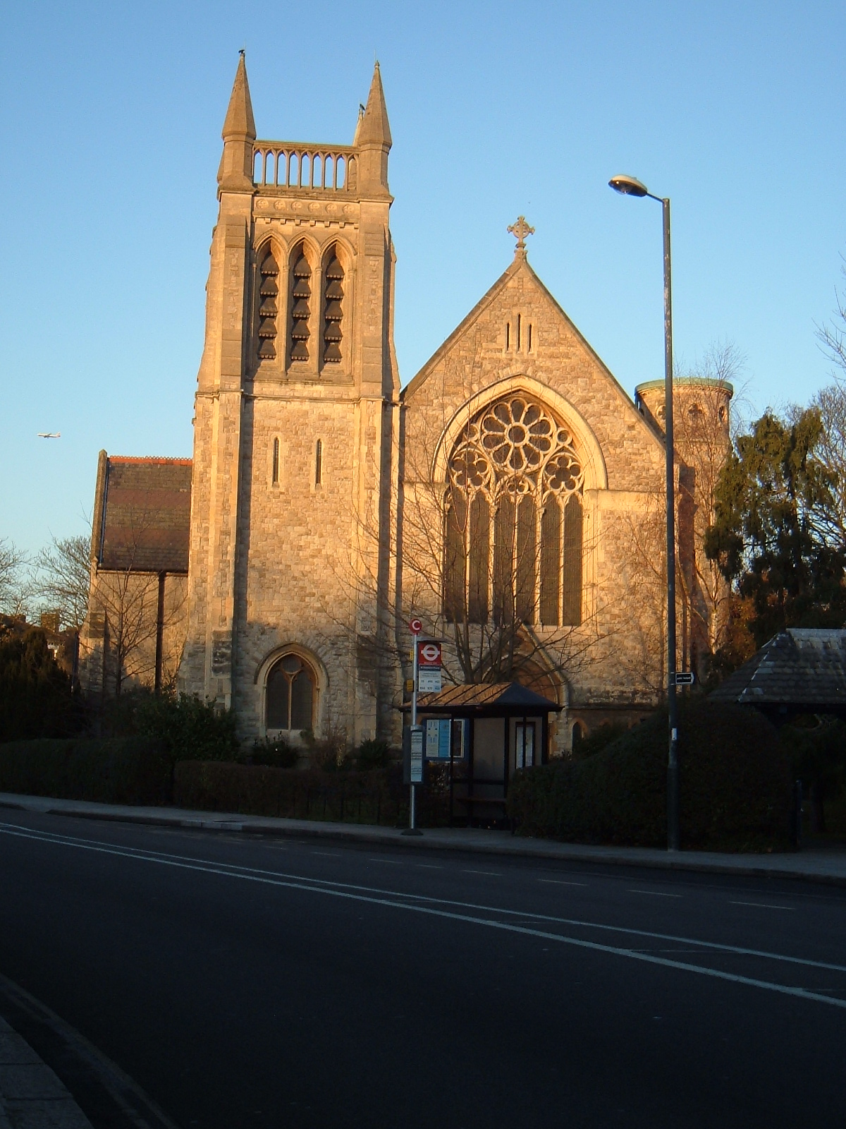 View from the front